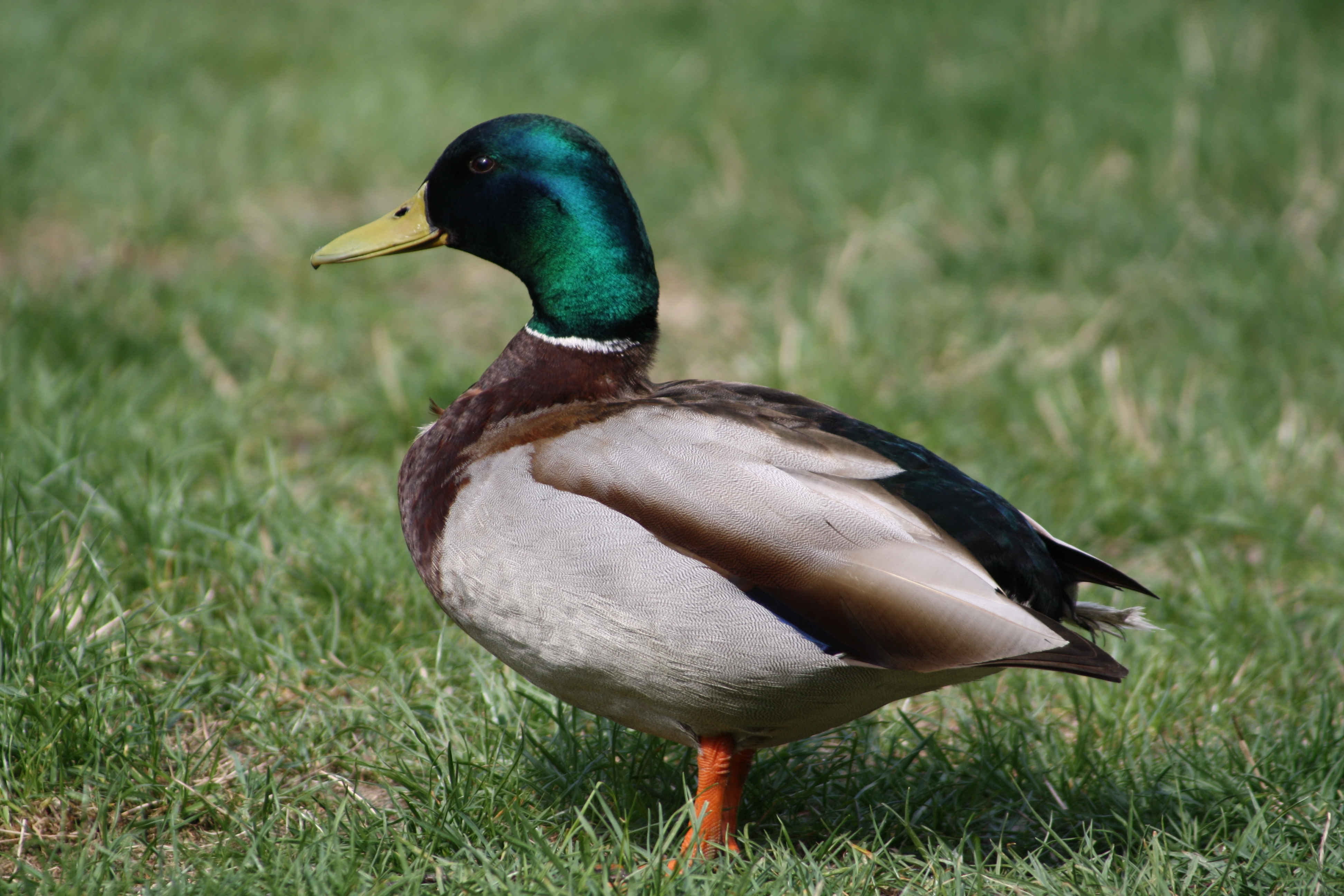 Drake taken at Třebíč, pond Babák banks, Czech Republic.